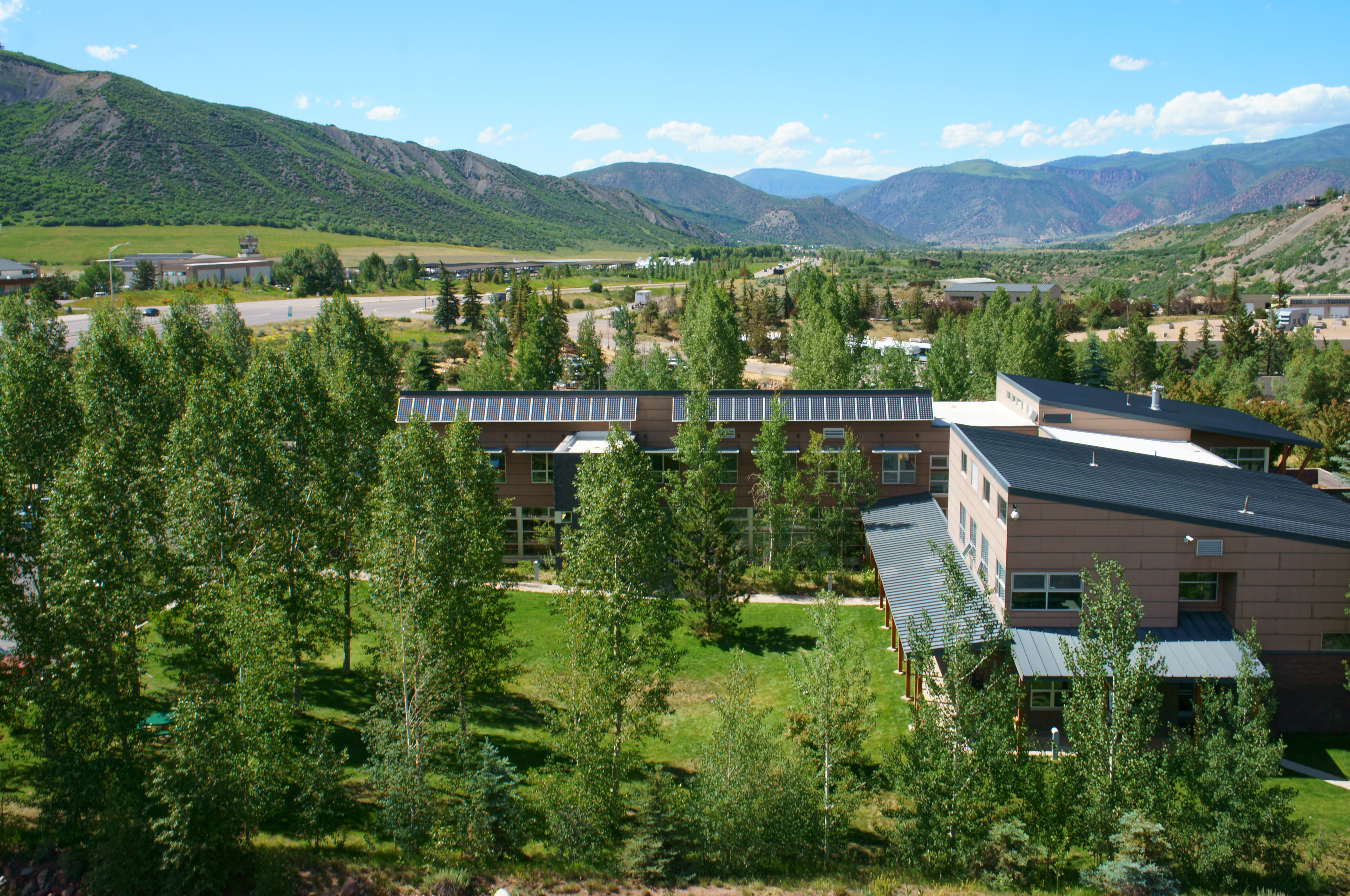 Aerial views of the Aspen campus